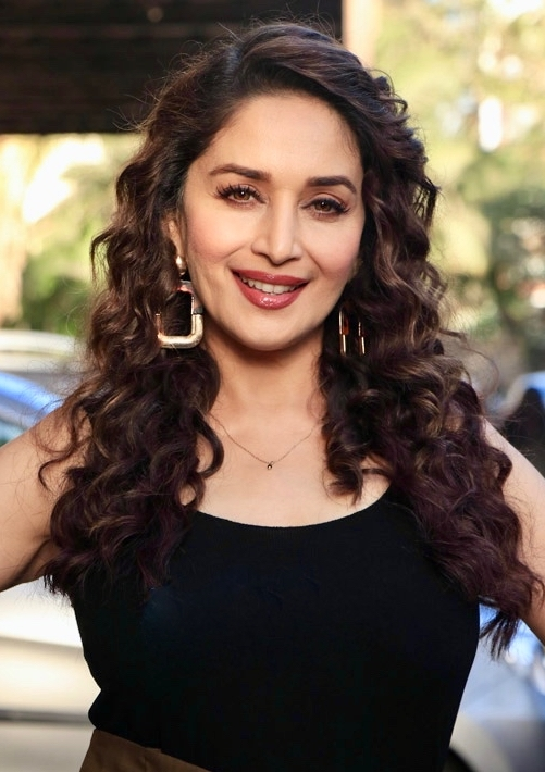 Madhuri Dixit promoting Total Dhamaal in 2019